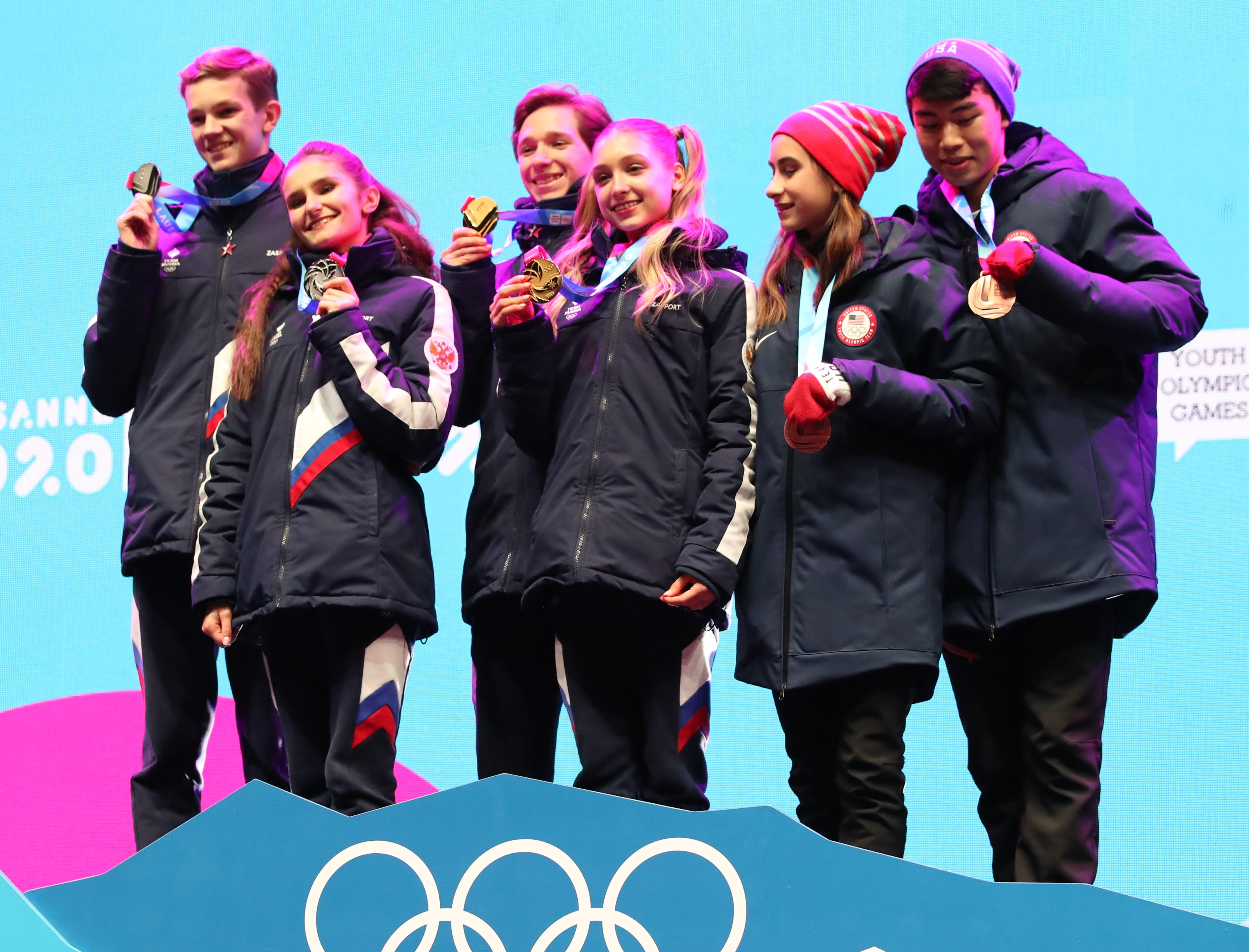 Medal ceremony of Figure skating – Ice dance at the 2020 Winter Youth Olympics in Lausanne on 13 January 2020.